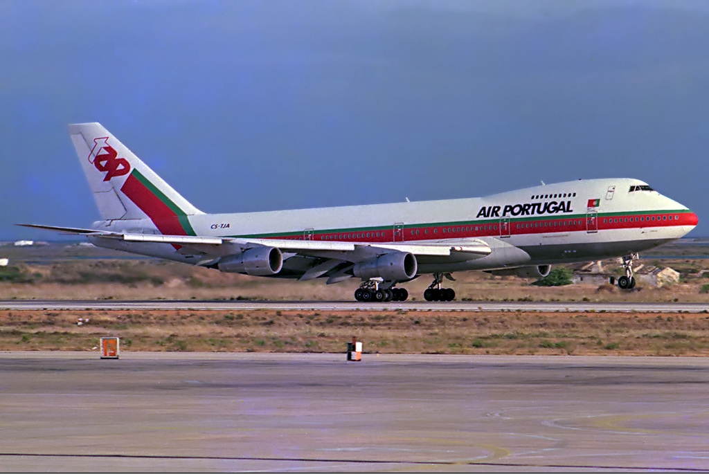 TAP Air Portugal Boeing 747-200 at Faro Airport